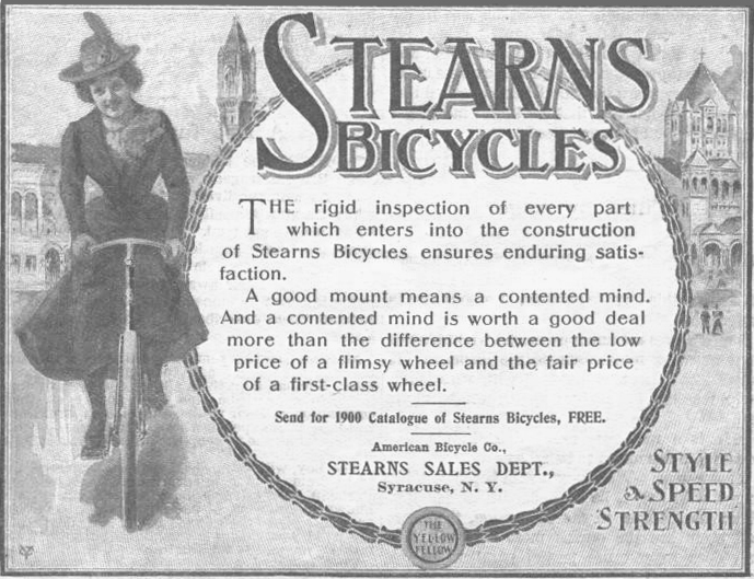 E. C. Stearns & Company of Syracuse, New York in 1900